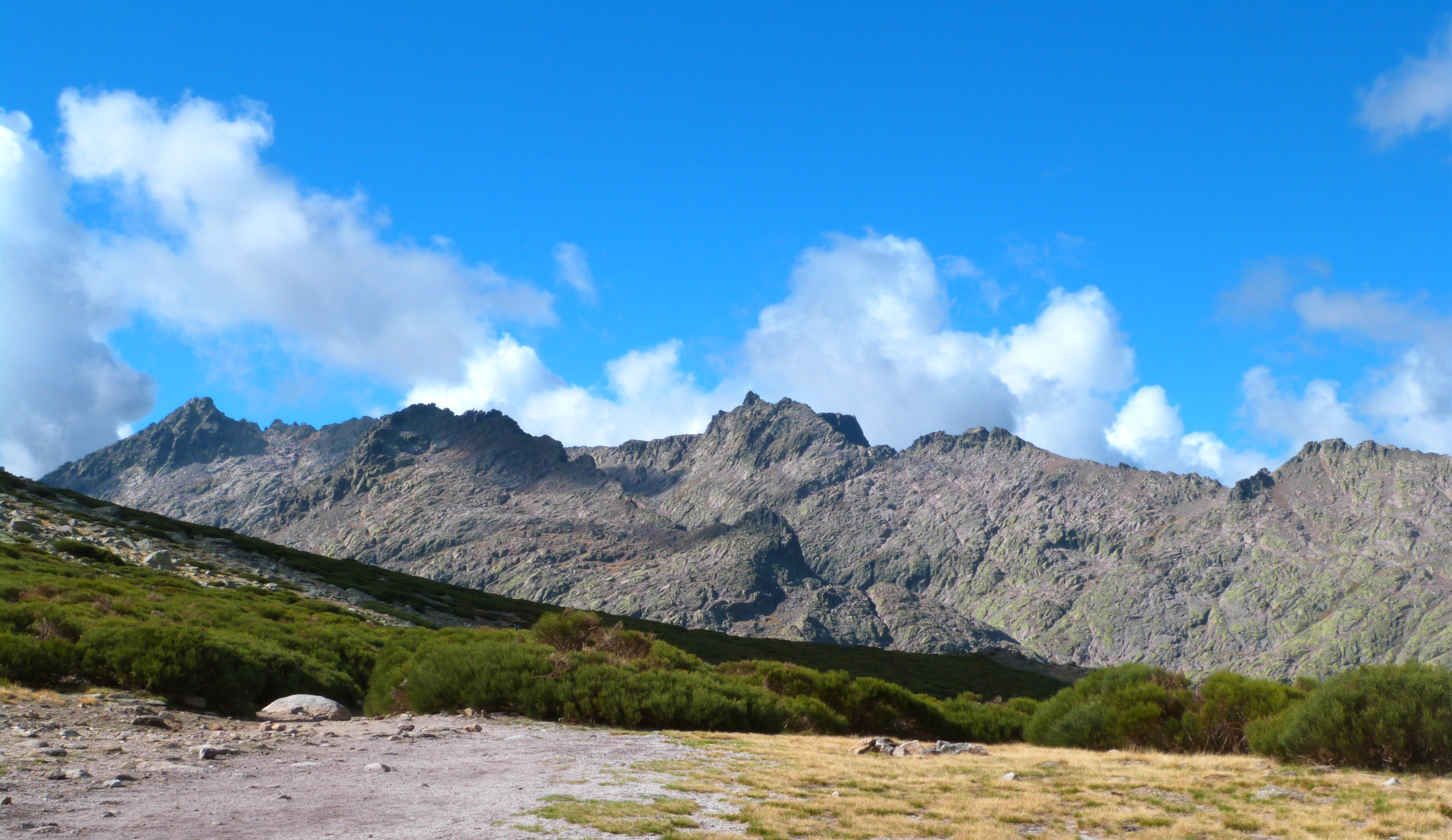 This is a photography of a Special Area of Conservation in Spain with the ID: ES4110002. Natura2000 entry, EEA entry